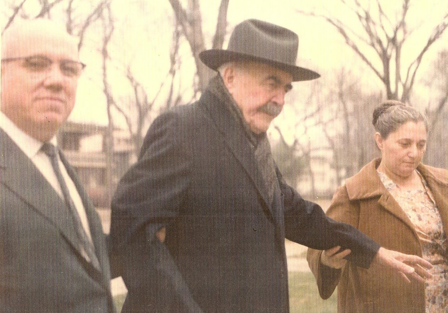 Miguel Spina, Louis Francescon and Joanna de Maio Spinain in Chicago in 1963, during a Spina family's mission trip.